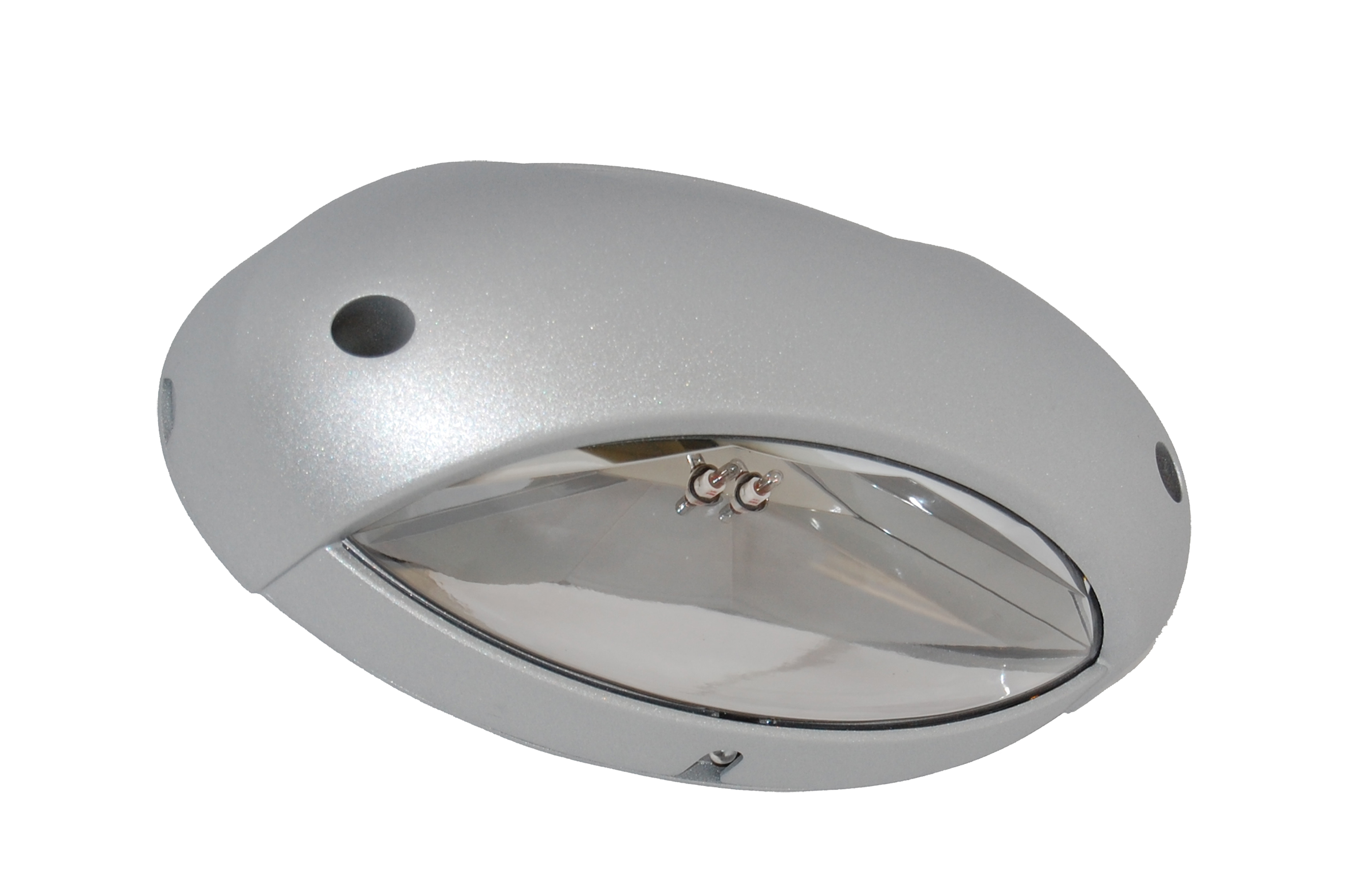 Modern Emergency Light